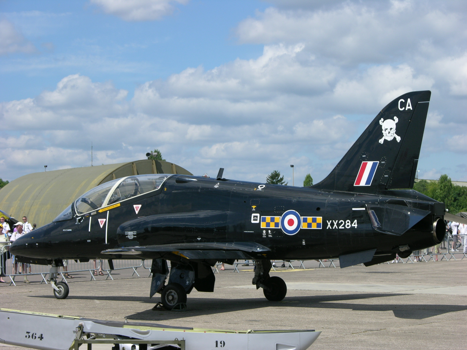 XX284/CA Hawk T.1A RAF Leeming 100 Sqdn.